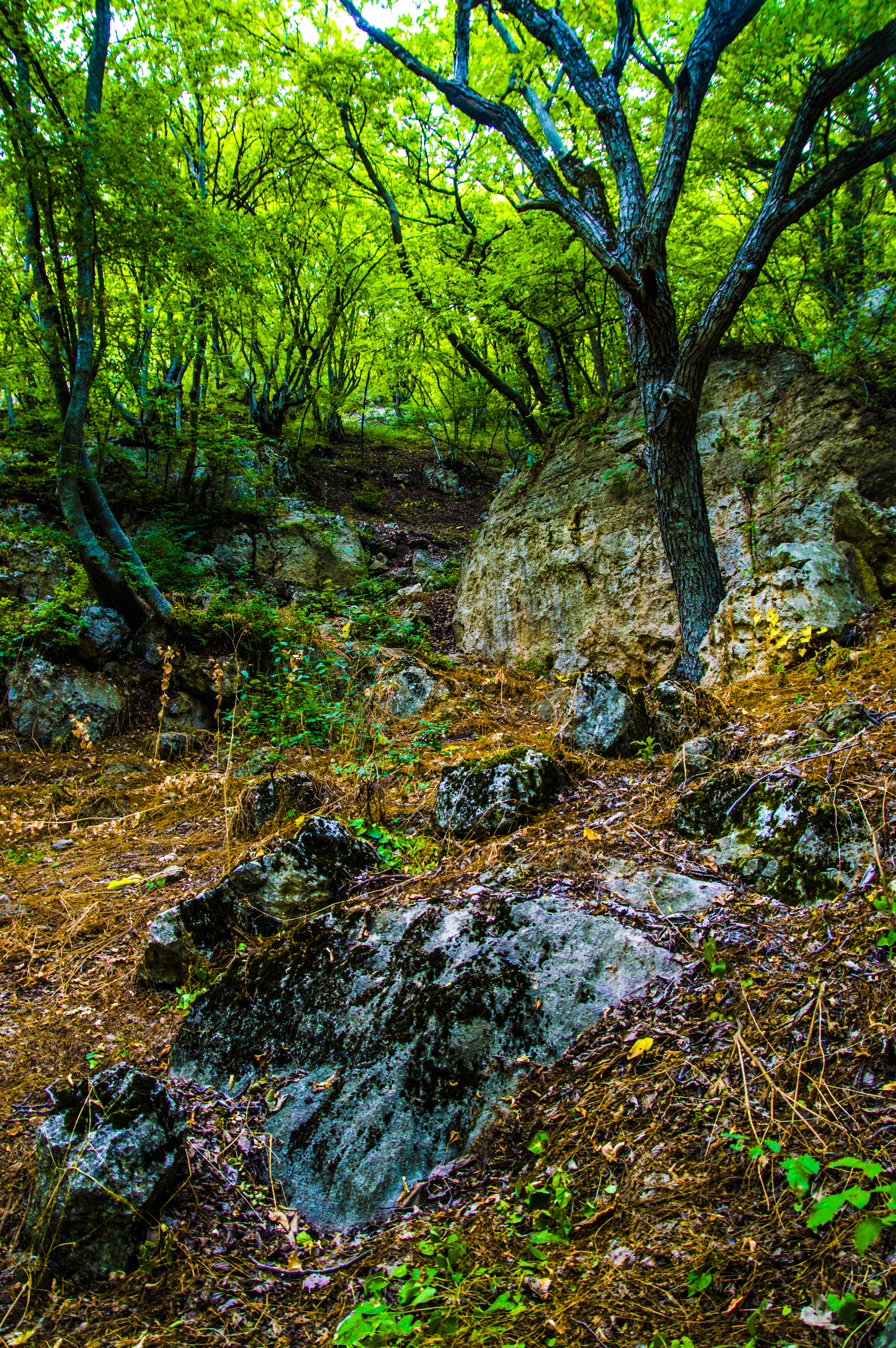 forest in Artsakh Armenia